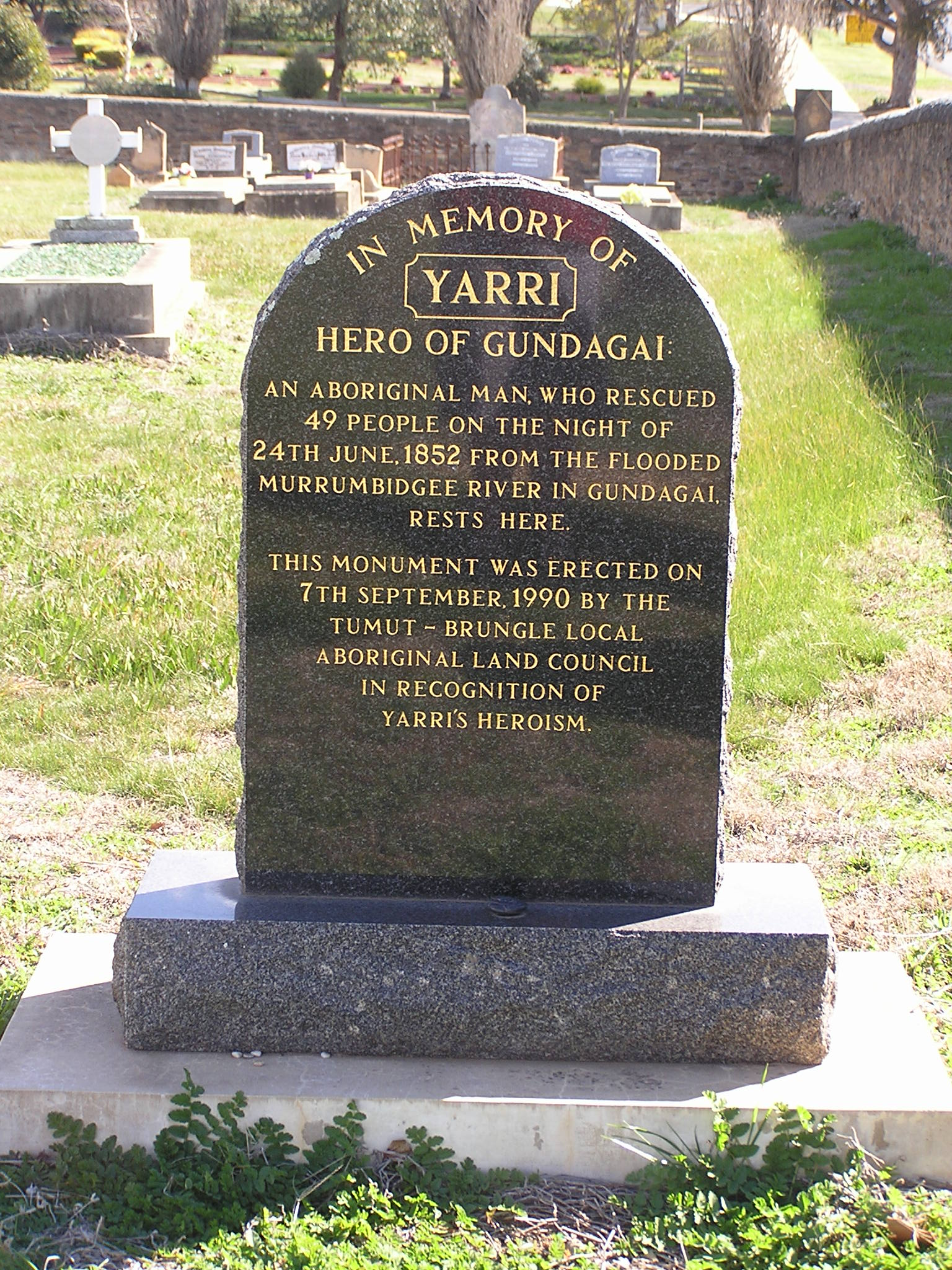 Monument at Gundagai, New South Wales, Australia, in memory of Yarri, an Indigenous Australian who rescued many people during the 1852 floods